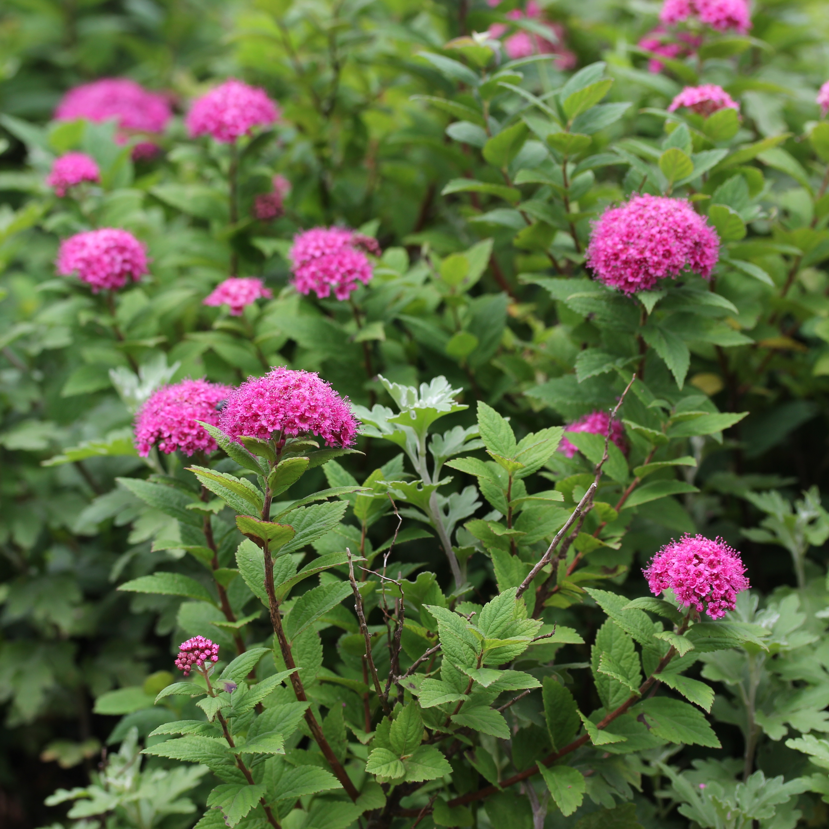 Spiraea japonica in Mount Ibuki, Maibara, Shiga Prefecture, Japan.